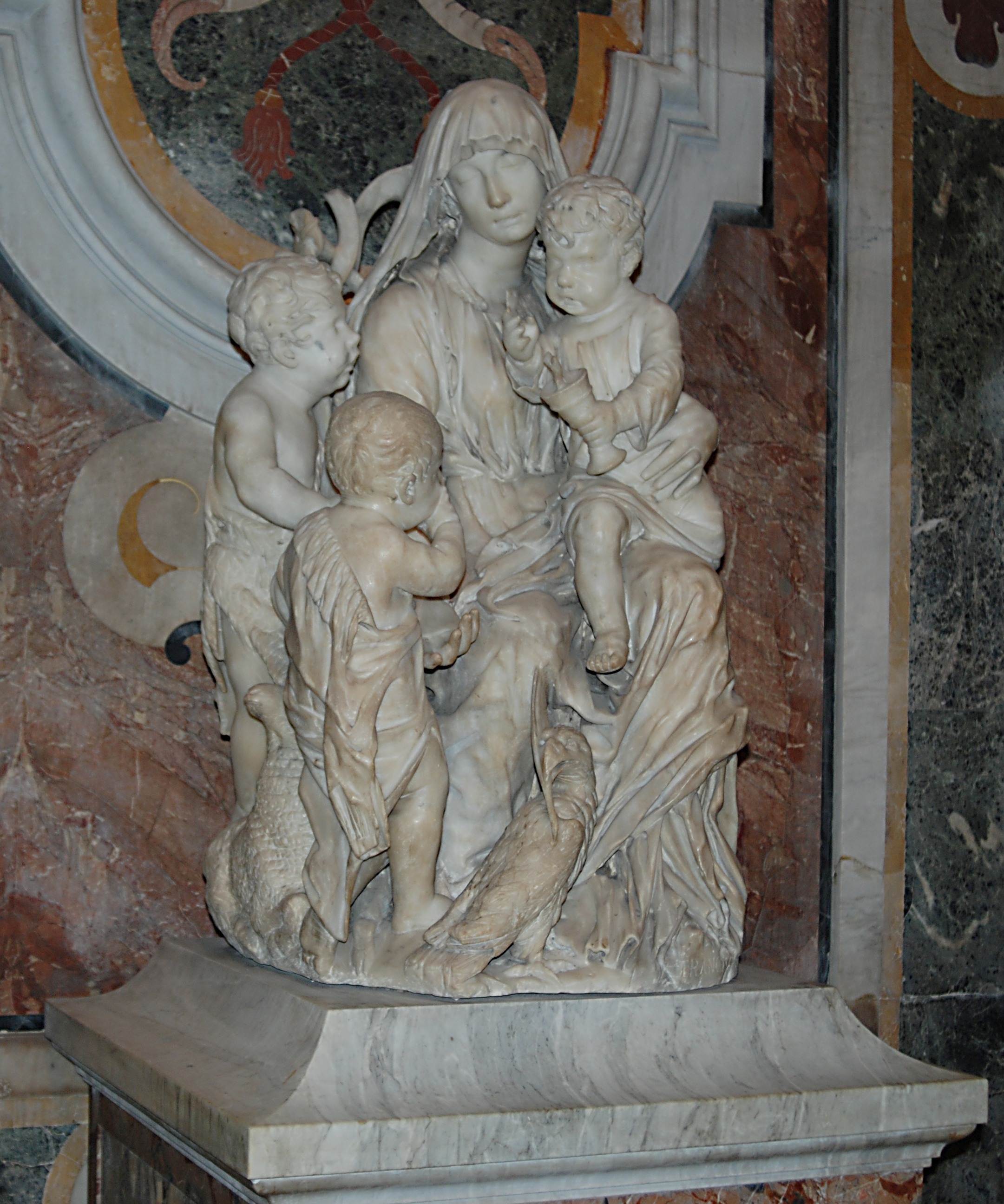 Francesco Grassia "Madonna and Child with Saints John the Baptist and John the Evangelist", 1670 - Roma - Church of Santa Maria Sopra Minerva